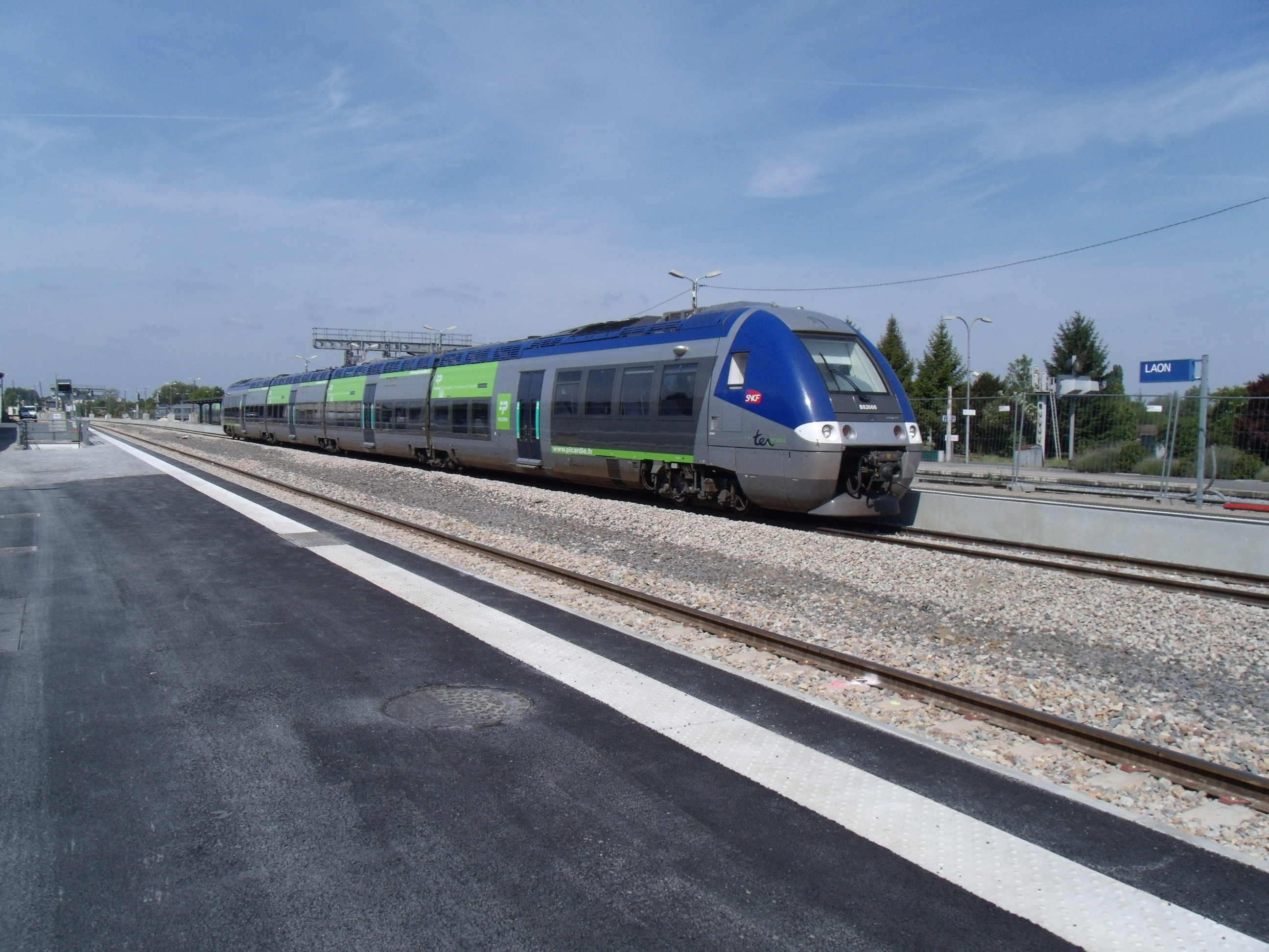 Bibi TER Picardie B 82665/666 in Laon station